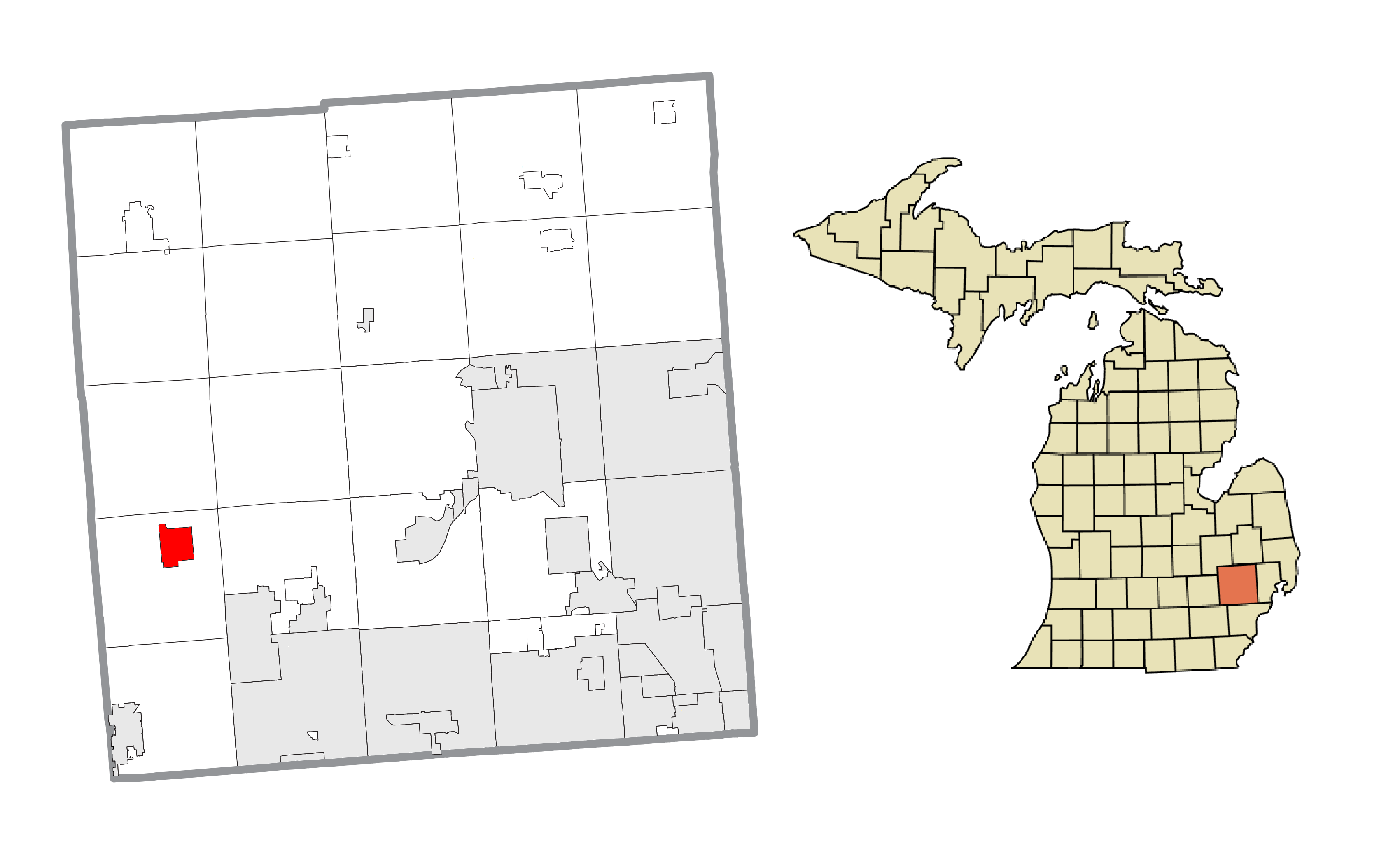 Milford, MI